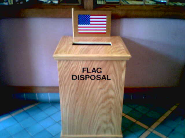 image of a flag disposal box in the McKinley Park Library in Chicago, Illinois, USA